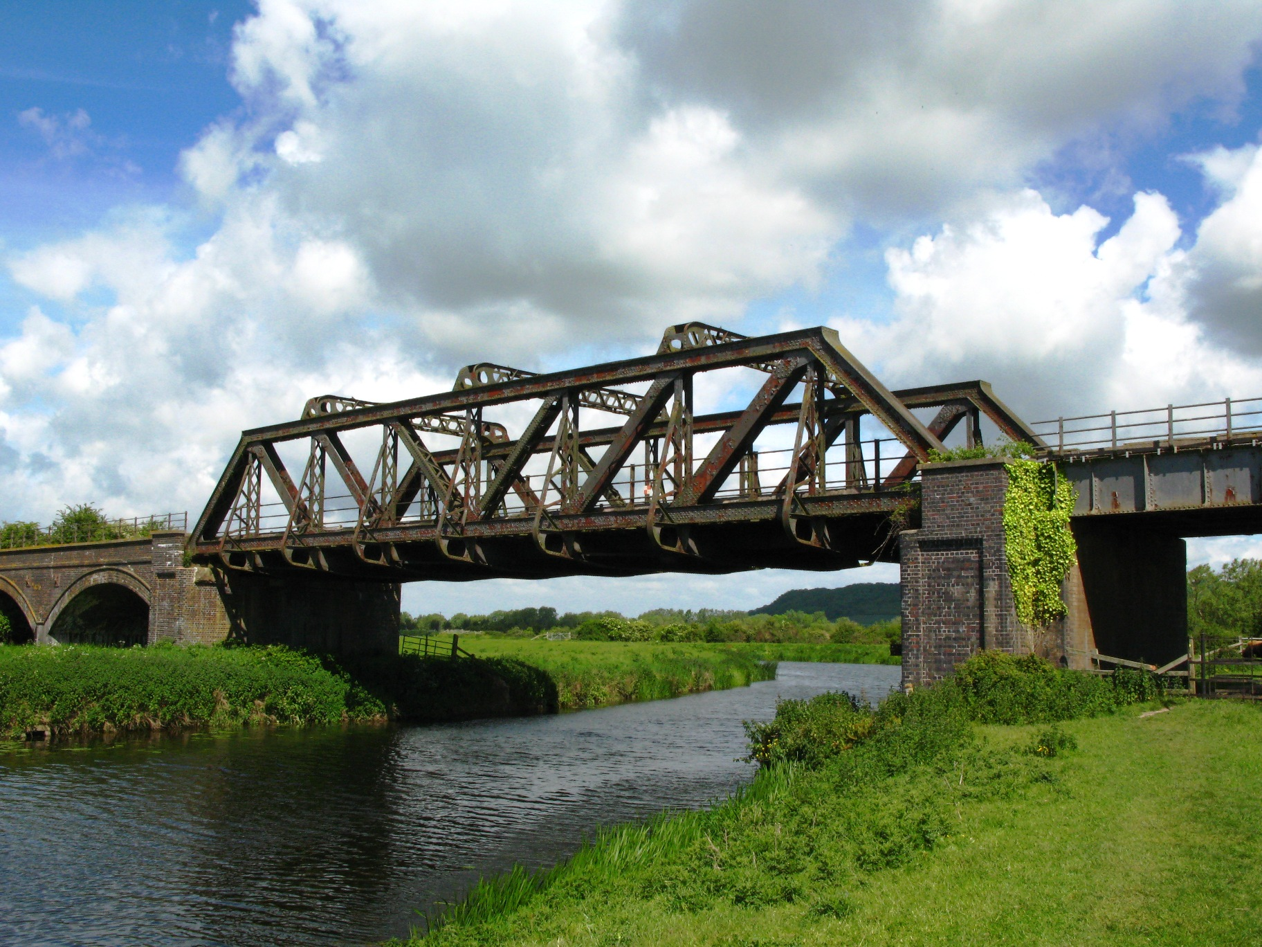 This 105 foot-long girder bridge carries the London to Penzance main line over the River Parrett at Langport, Somerset.